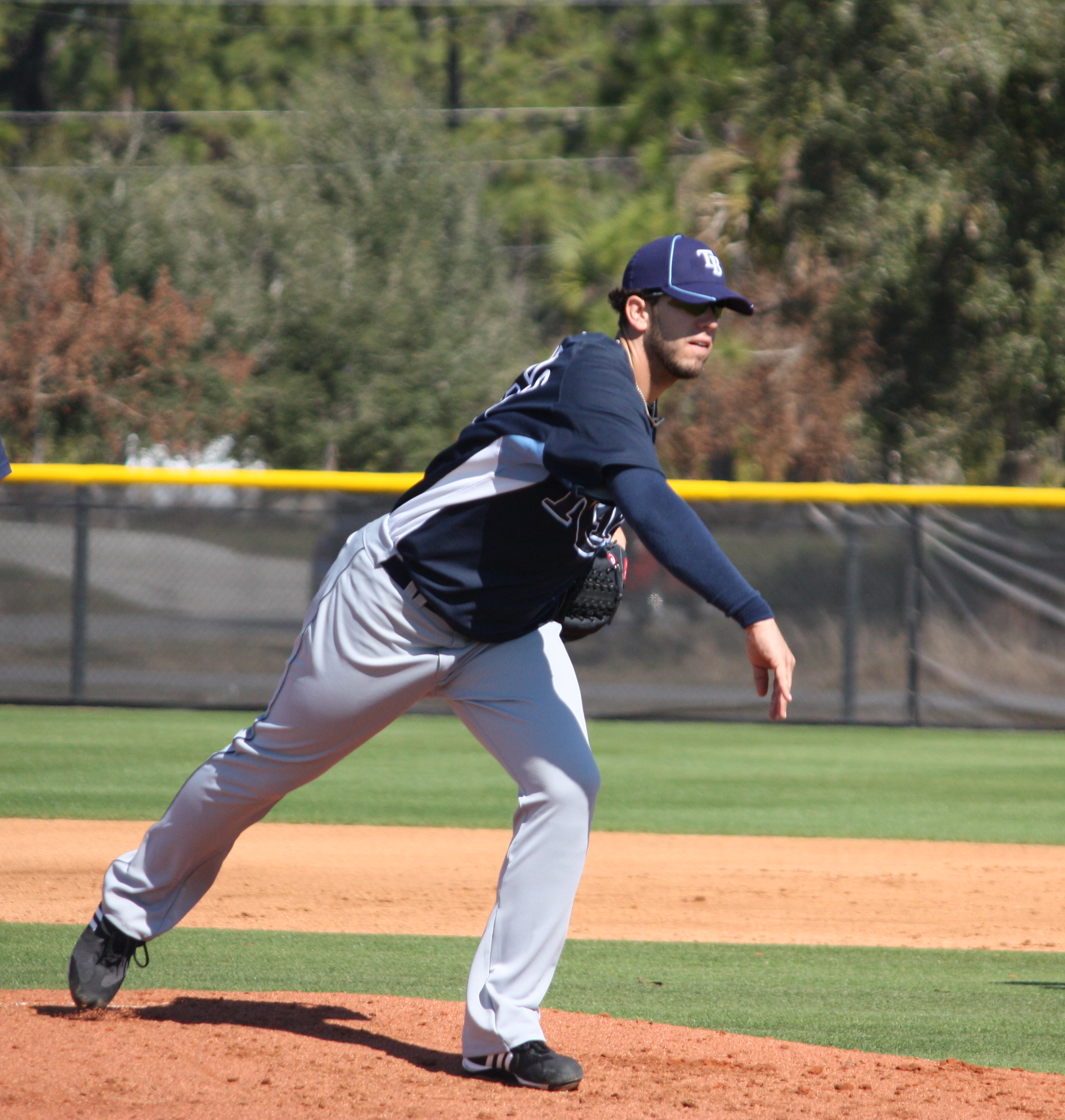 James Shields of the Tampa Bay Rays doing first base drills during spring training workouts at Charlotte Sports Park in Port Charlotte on February 21, 2010.